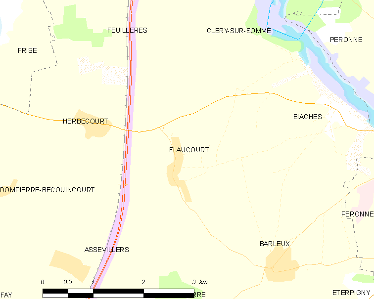 Map of French municipality Flaucourt